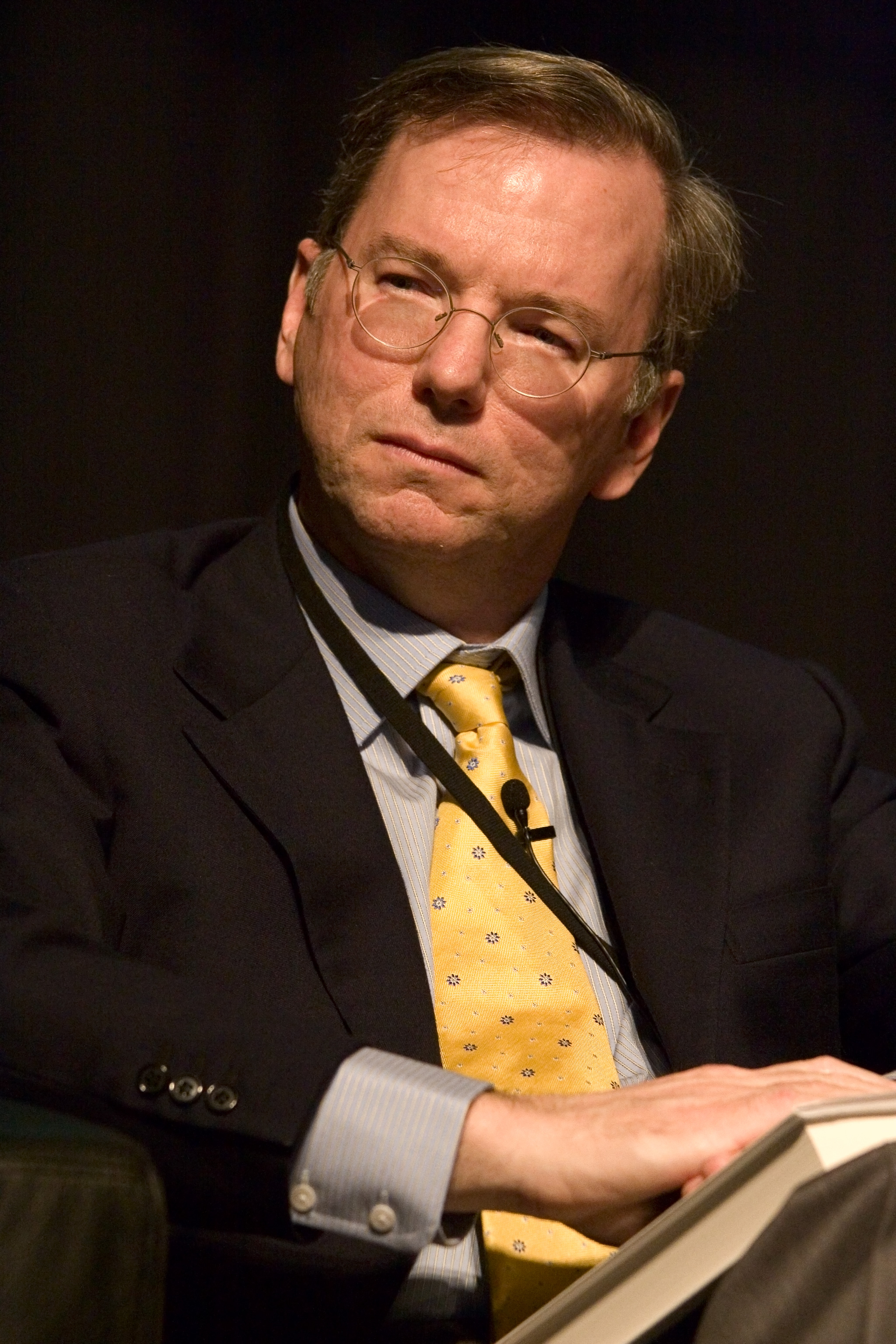 Eric E. Schmidt, Chairman and CEO of Google Inc and a member of the Board of Directors of Apple Computer.